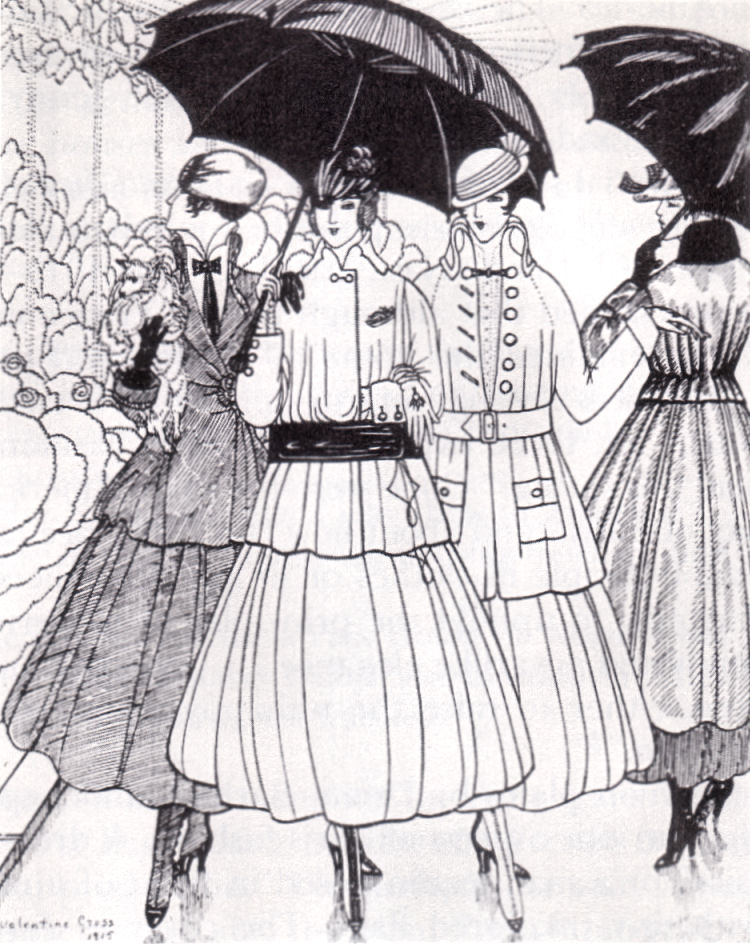 "It's still raining", fashion plate from La Gazette du Bon Ton, 1915, showing (left to right) tailored suits by Paquin, Lanvin, and Doeuillet and a coat by Paquin.